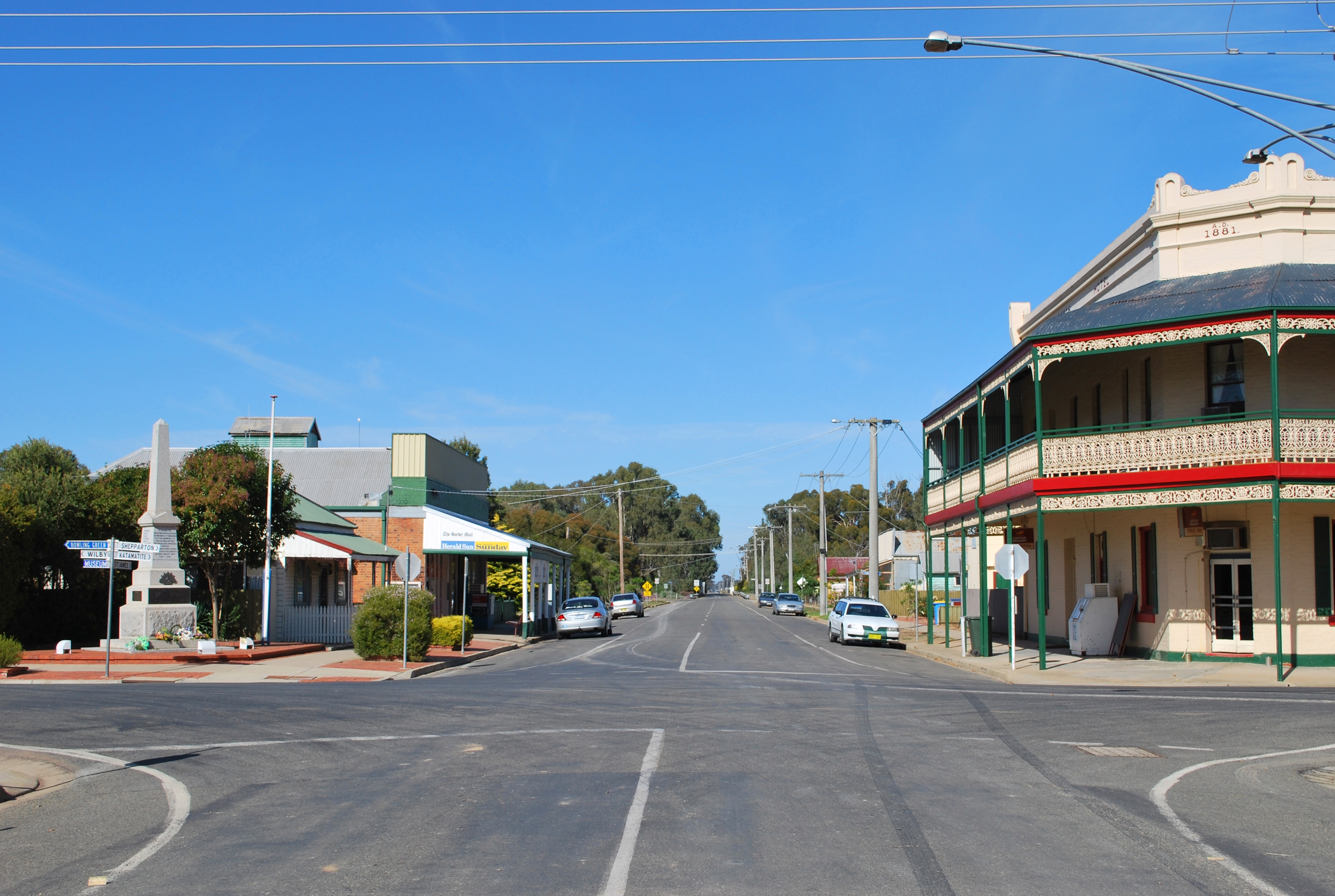 Barr St, the main street of Tungamah, Victoria